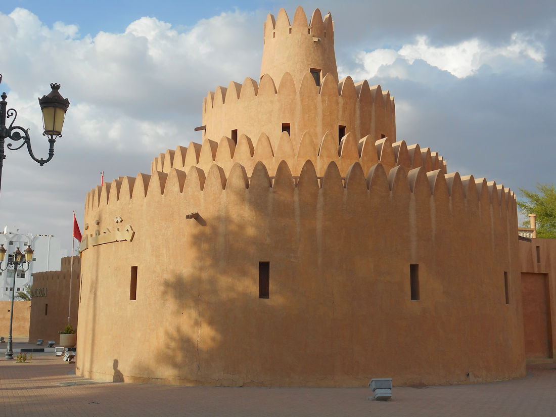 Part of the exterior of the Sheik Zayed Palace Museum (aka the Al Ain Palace Museum), Al AIn, Abu Dhabi, UAE.